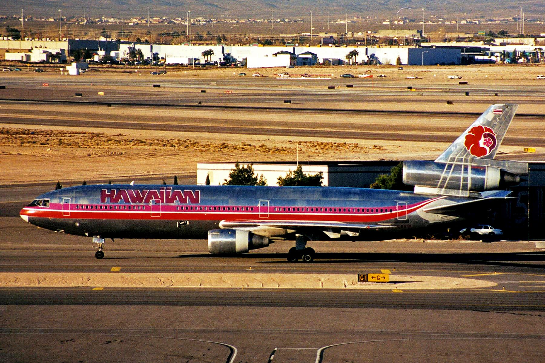 A picture of an airplane